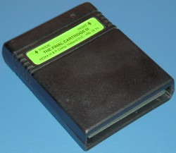 Foto: Fabian Meyer